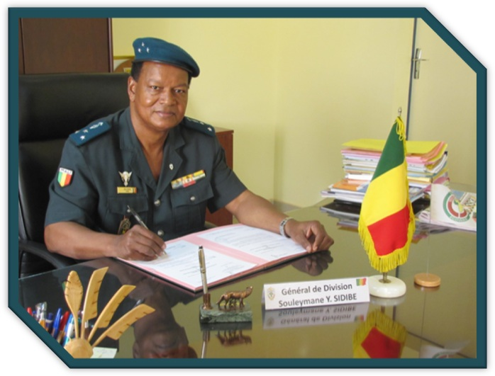 Major General Souleymane Yacouba SIDIBE - Director of the Ecole de Maintien de la Paix